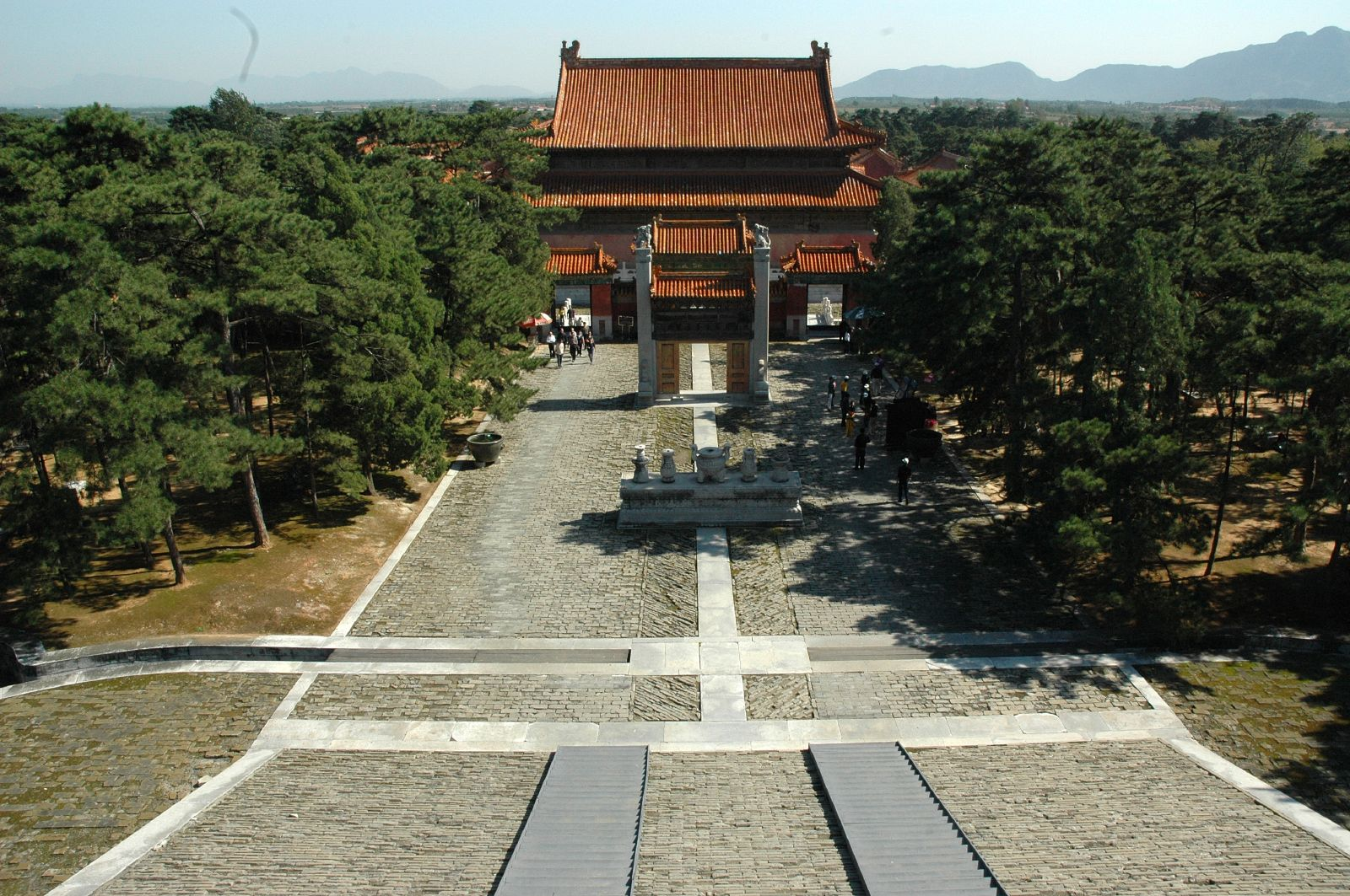 Yuling, Eastern Qing Tombs, Hebei, China